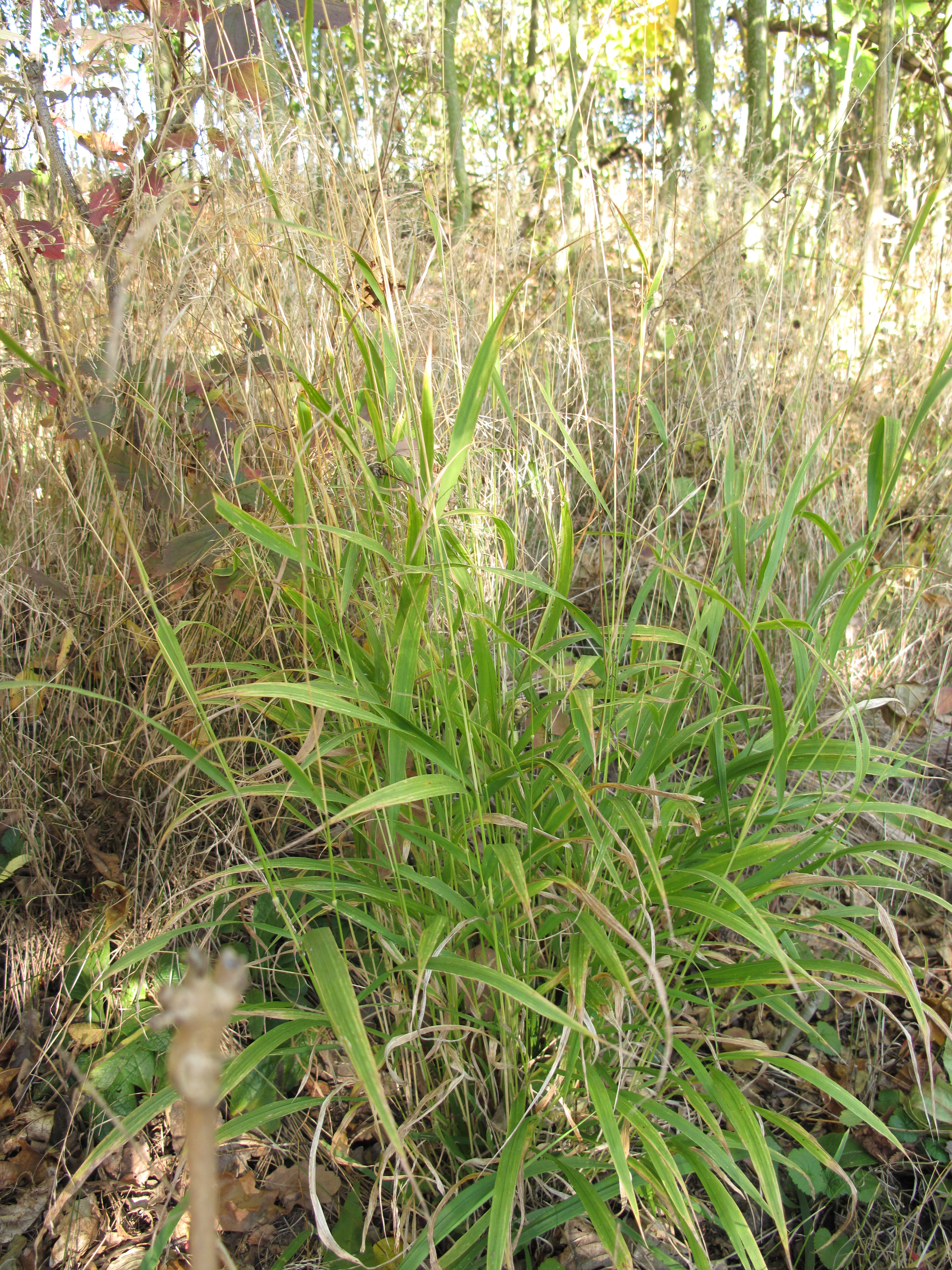 Brachypodium sylvaticum (?) in Natural monument Stráně Hlubockého dolu, Mělník District, Czech Republic.